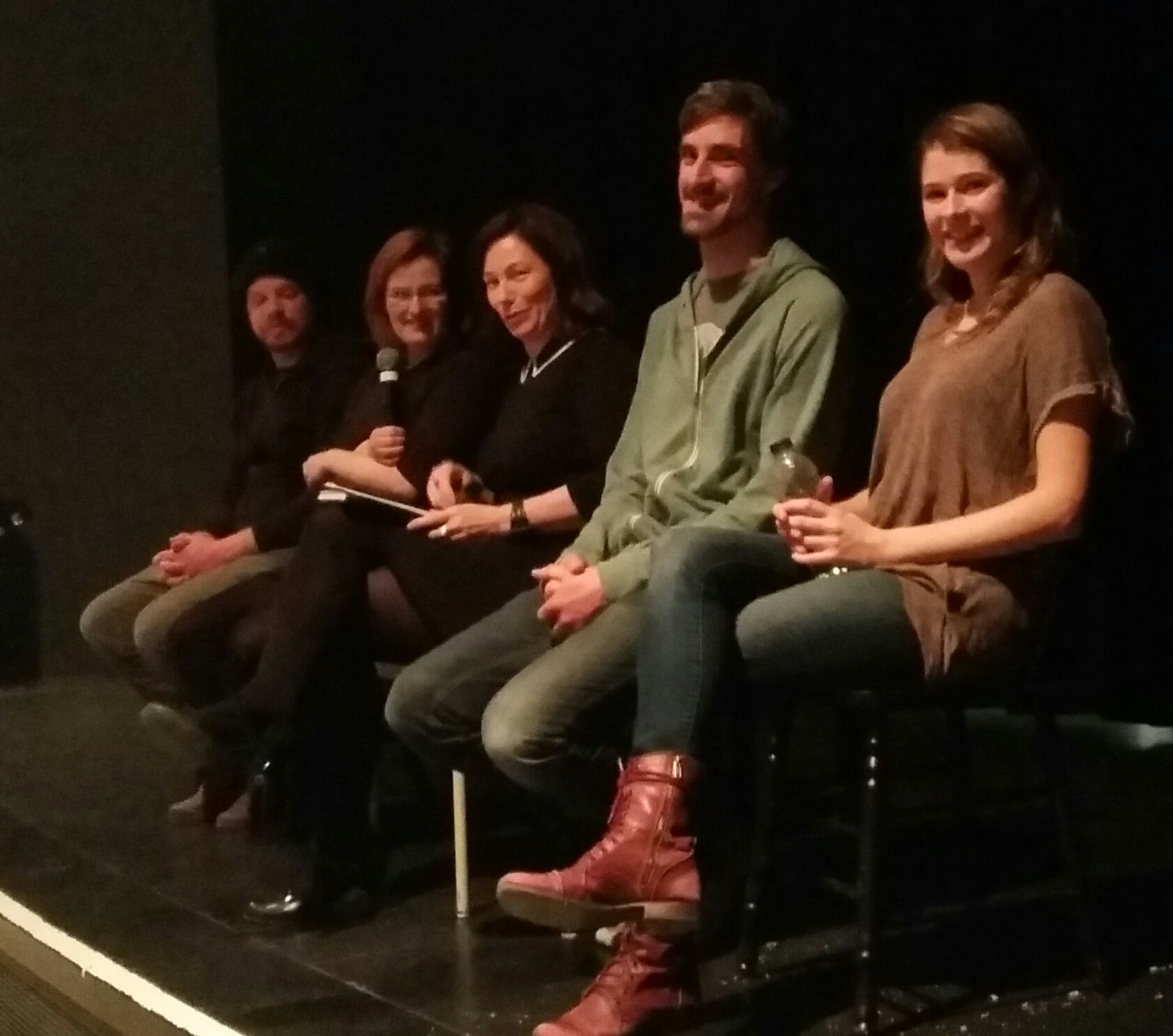 A post-show meeting of the cast for Faire l'amour inside the Émile-Legault theatre photographed in Montreal, Quebec, Canada.